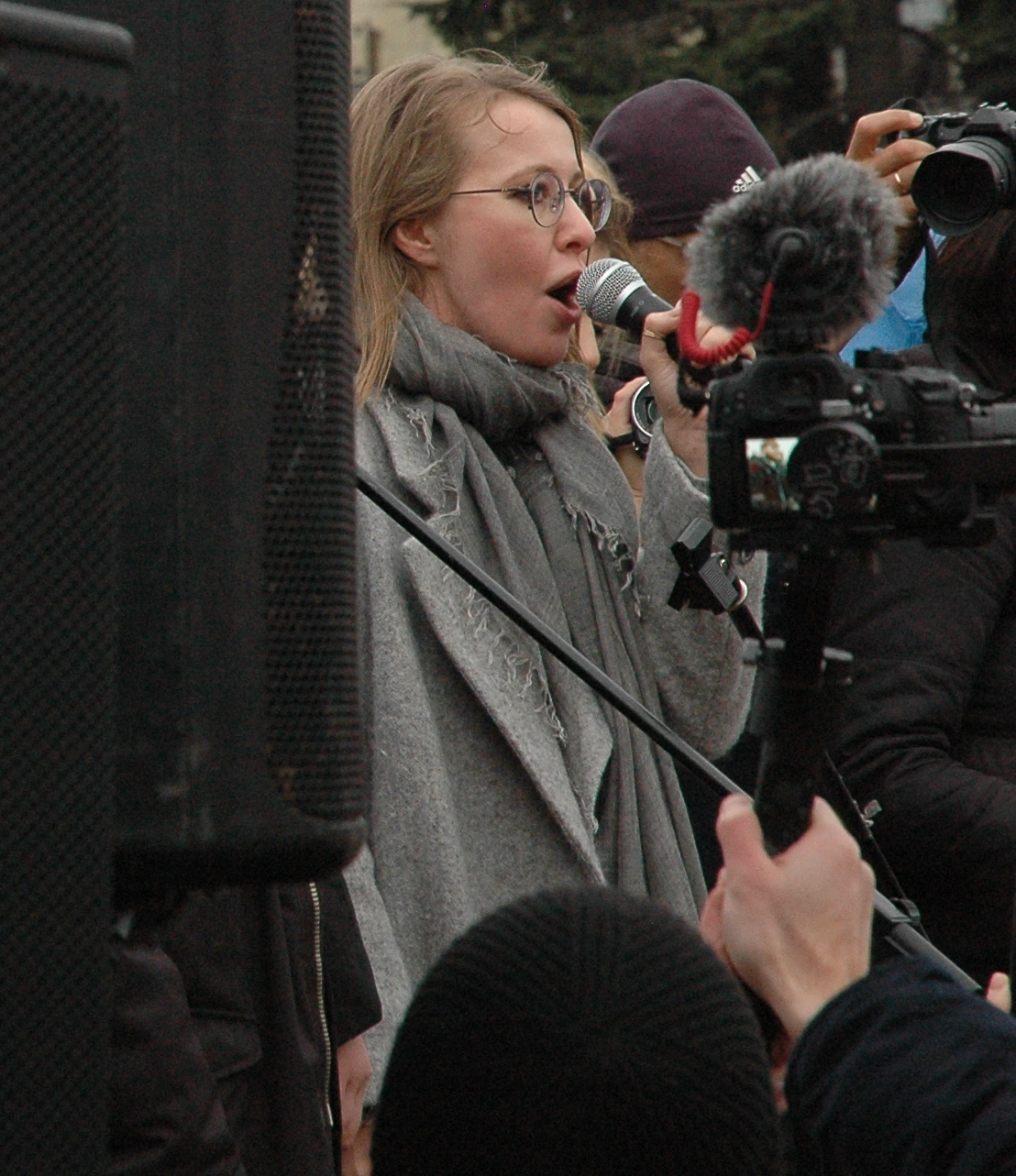 Xenia Sobchak speaking. 2017-11-11 Meeting to support education and science (Lenin square, St. Petersburg, Russia).